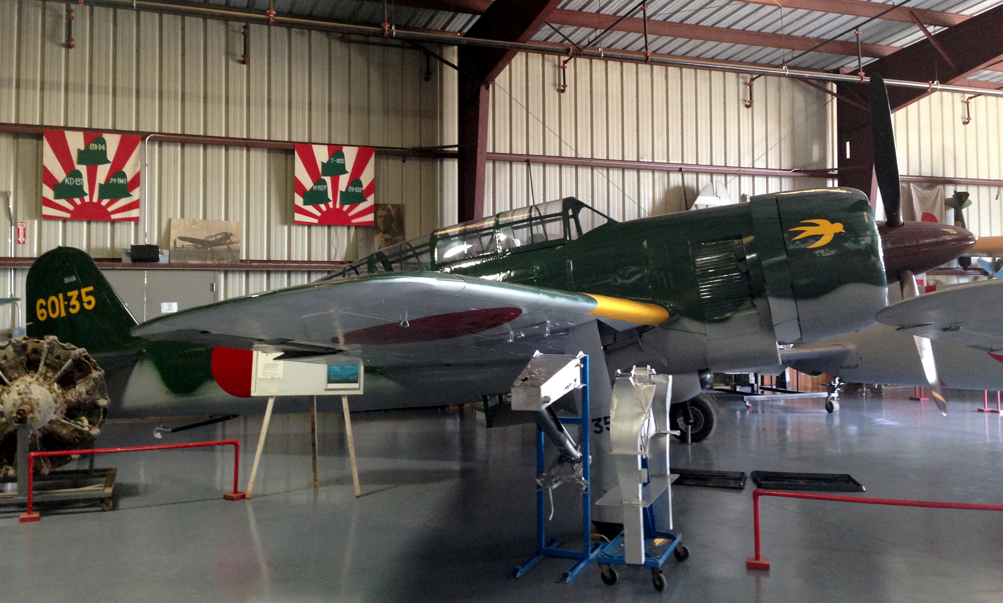 Japanese Imperial Navy Yokosuka (横須賀) D4Y Suisei (彗星) Carrier Dive bomber